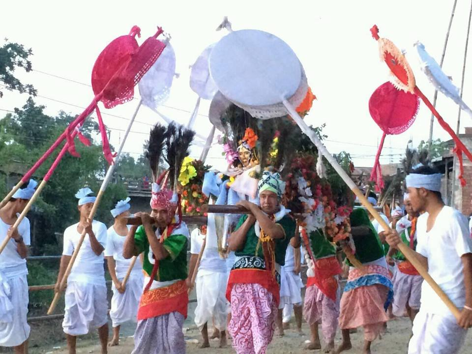 kakching khullen Ibudhou khamlangba lai lamthokpa